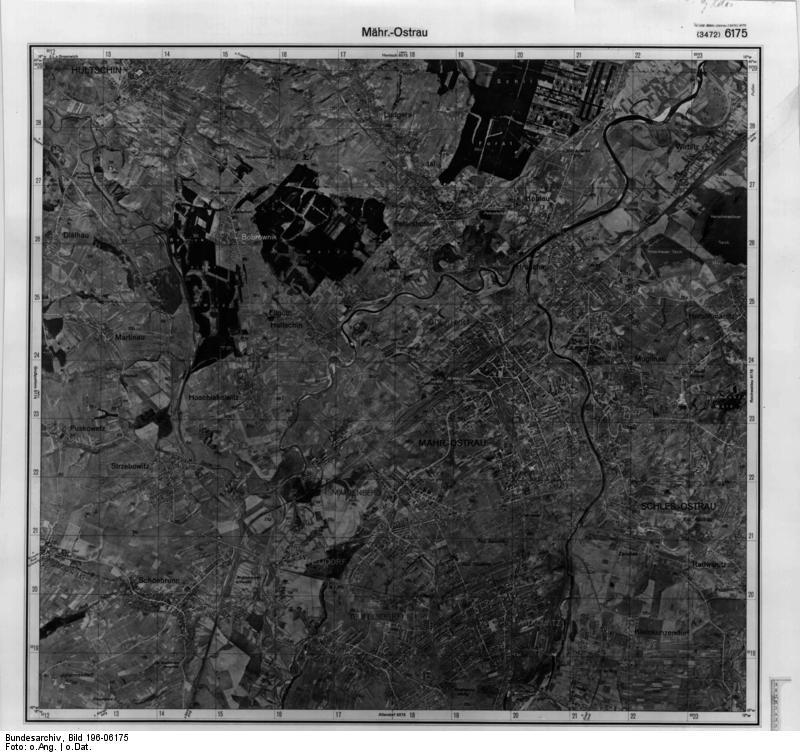 German Federal Archive photo 196-06175 of Moravian Ostrava